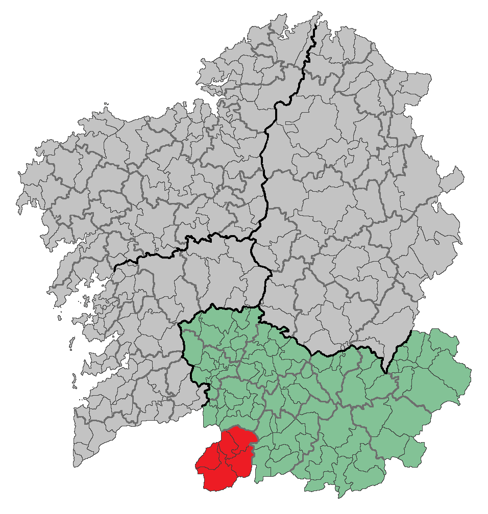 Region of Galicia (Spain) Based in: Image:Location of Betanzos.png Source: Designed by Leoplus. Original picture, designed by Caiser over a work made by Alyssalover.